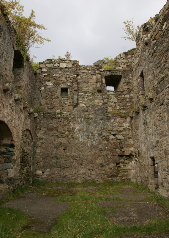 Old Castle Lachlan, Garbhallt, Argyll and Bute, Scotland. Upper level of the west block.